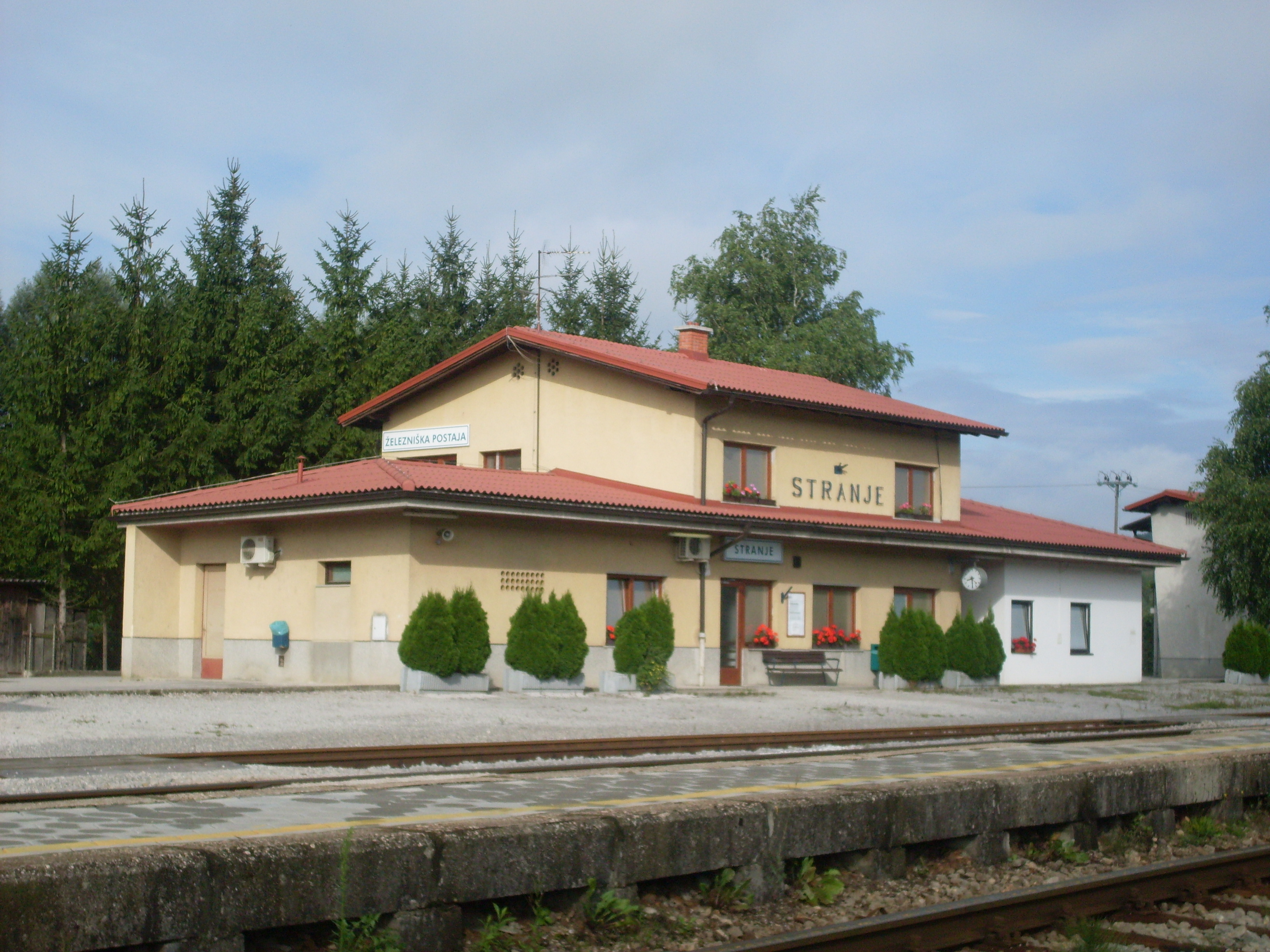 Train station in Stranje